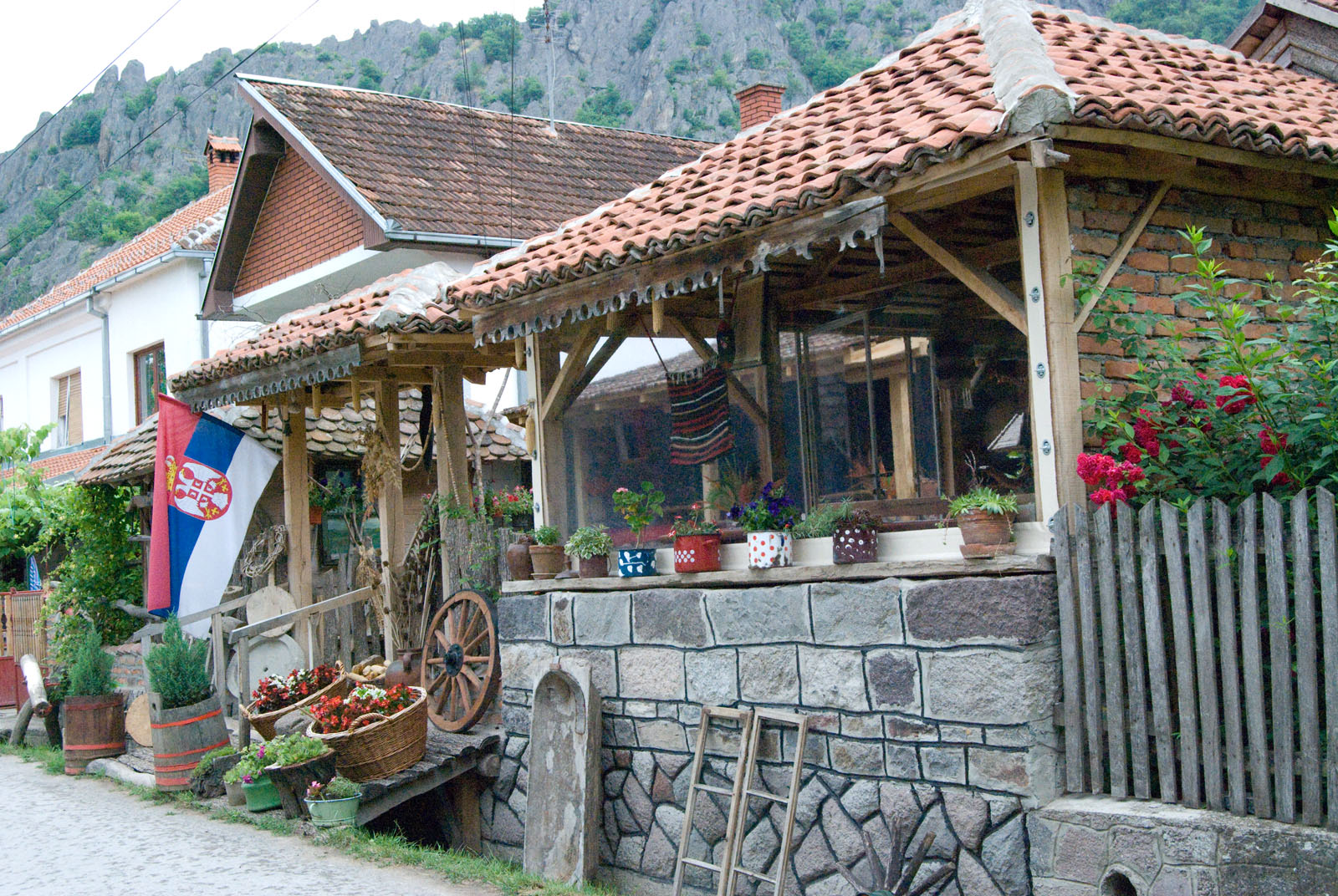 Ethno kafana in Borač, near Knić, Serbia